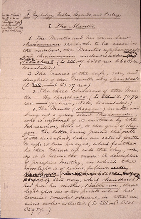 Mythology,_Fables,_Legends_and_Poetry, printer's draft by Lucy Lloyd.